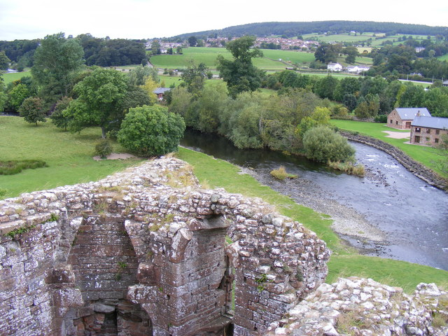 The River Eamont as viewed from Brougham Castle. The river flows past the north side of the castle.